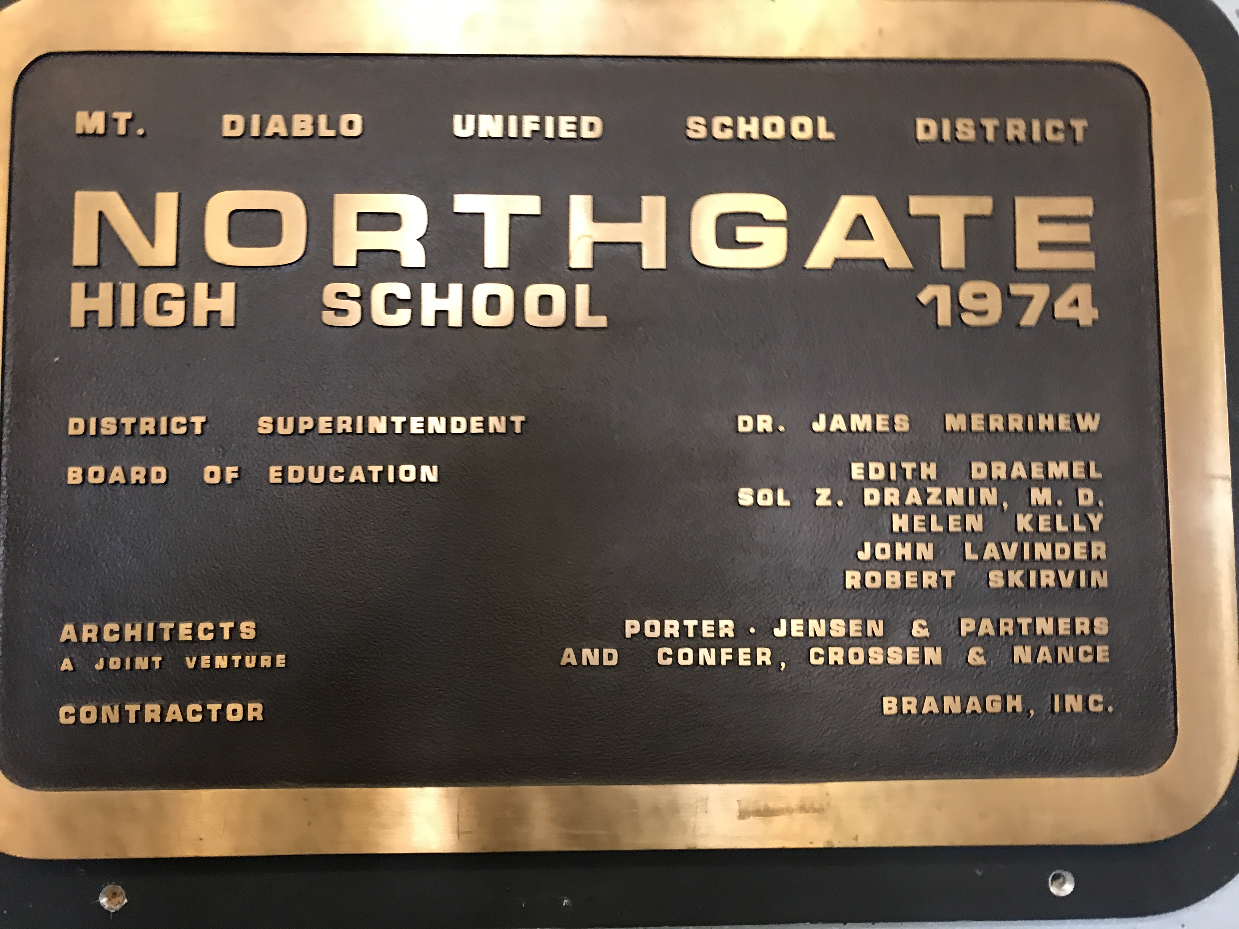 Northgate High School (Walnut Creek, Calif.), plaque inside main entrance